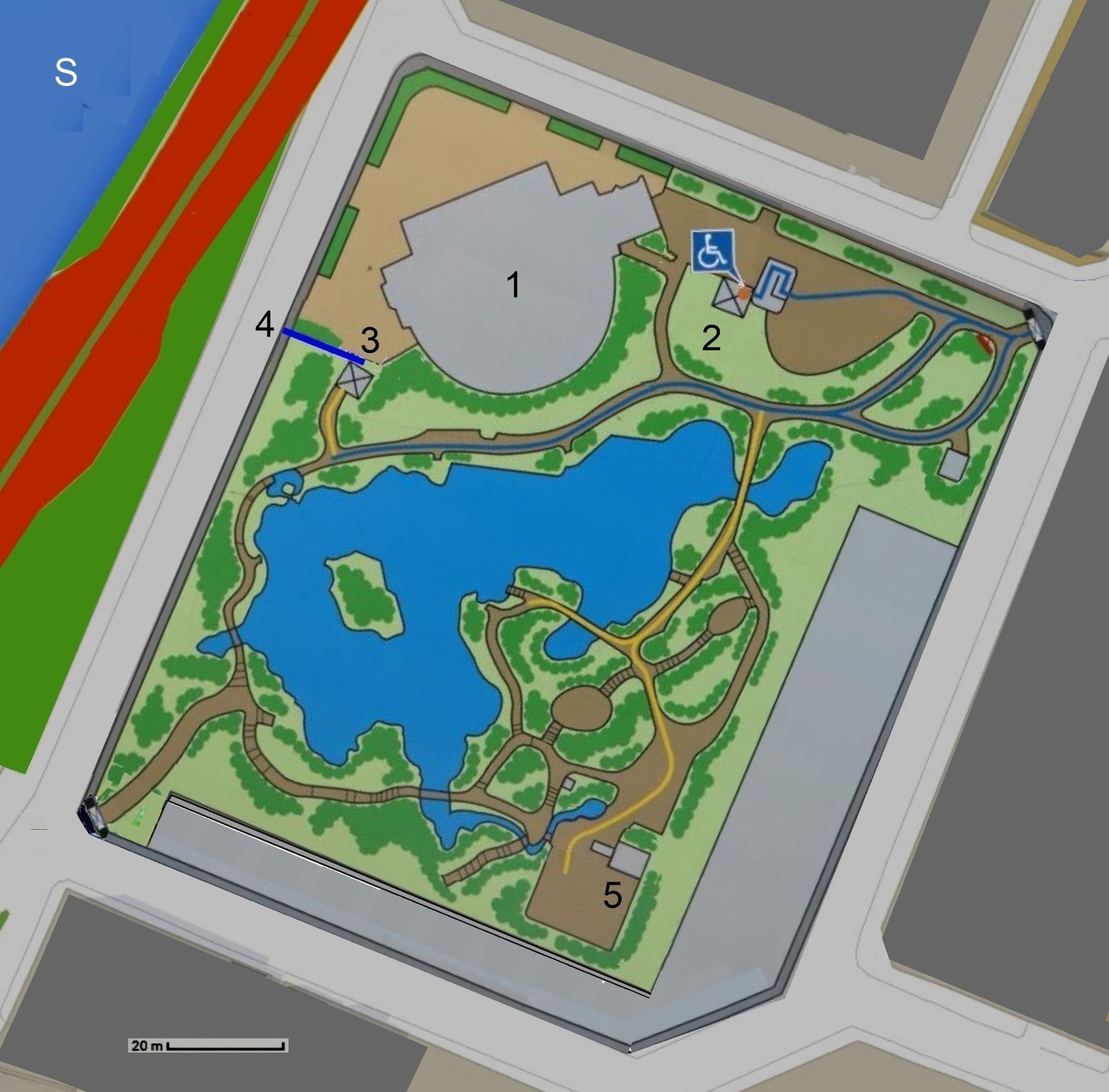 Yasuda Garden Tokyo